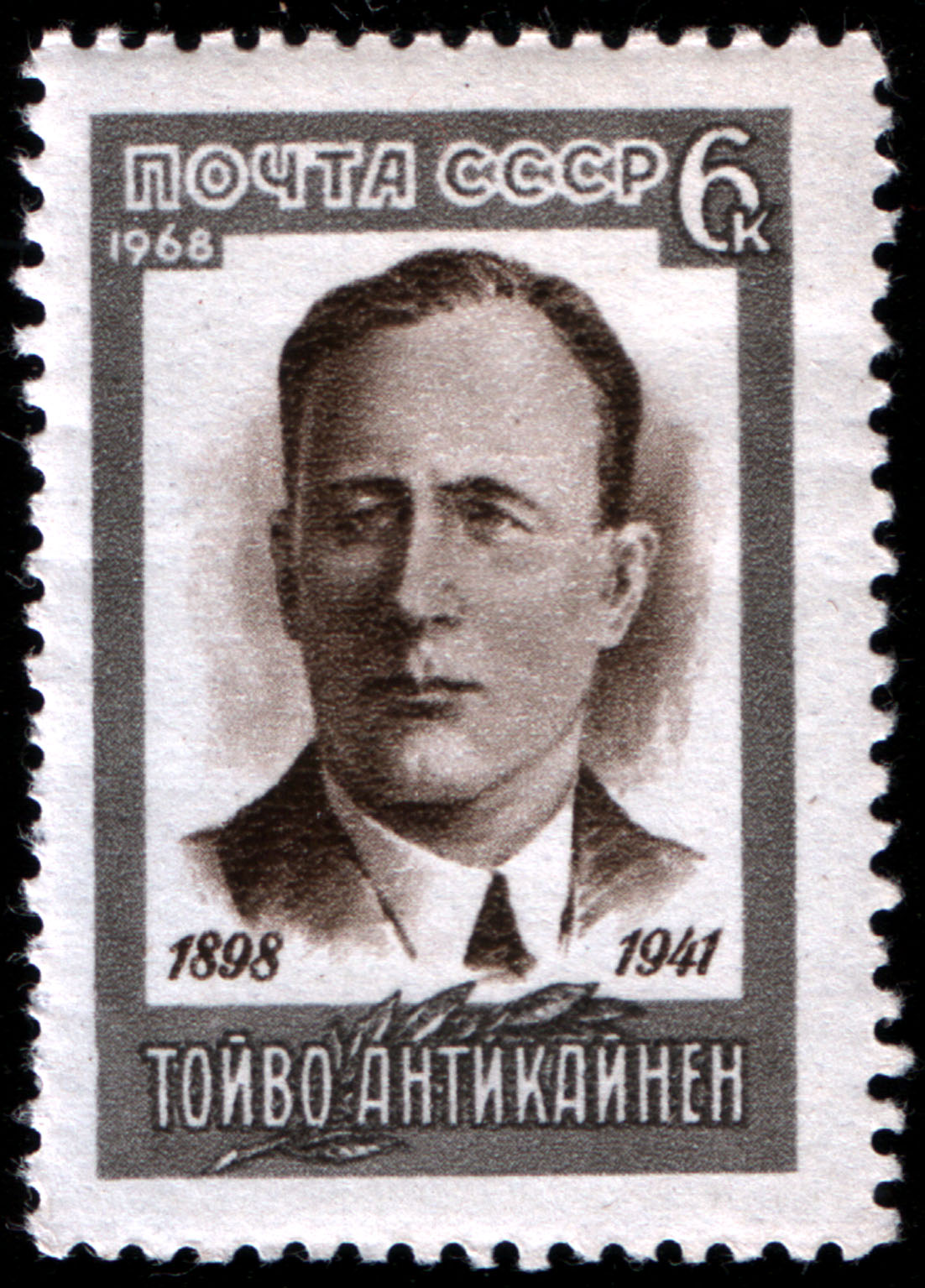 USSR stamp: One of Leader of the Communist Party of Finland Toivo Antikainen (1898–1941). Series: Foreign Outstanding Workers for International Labour and Liberation Movements